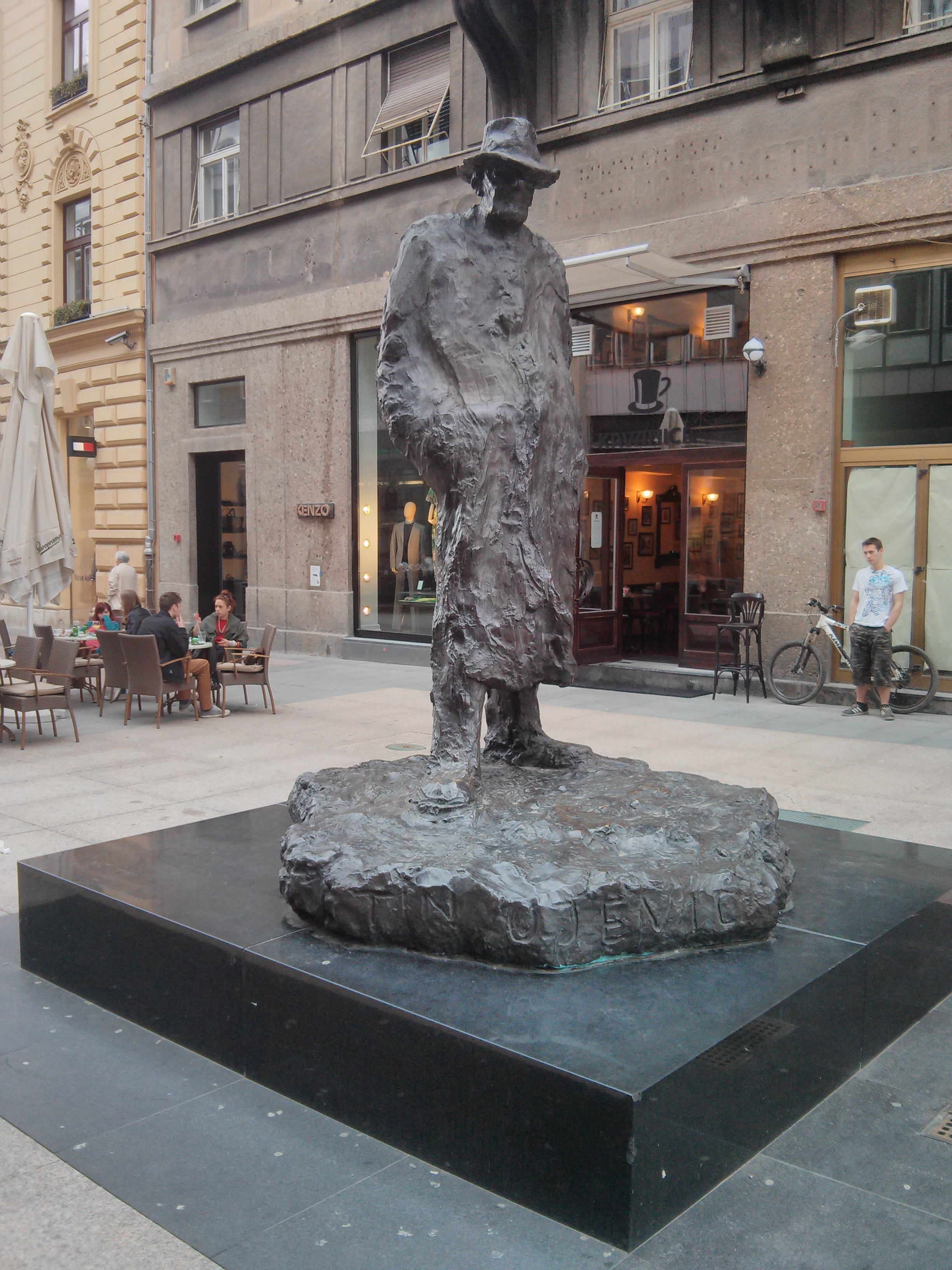 Tin Ujević monument in Zagreb, Croatia.